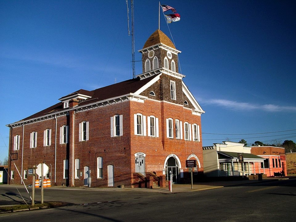 View of the old Belhaven Town Hall on Main Street